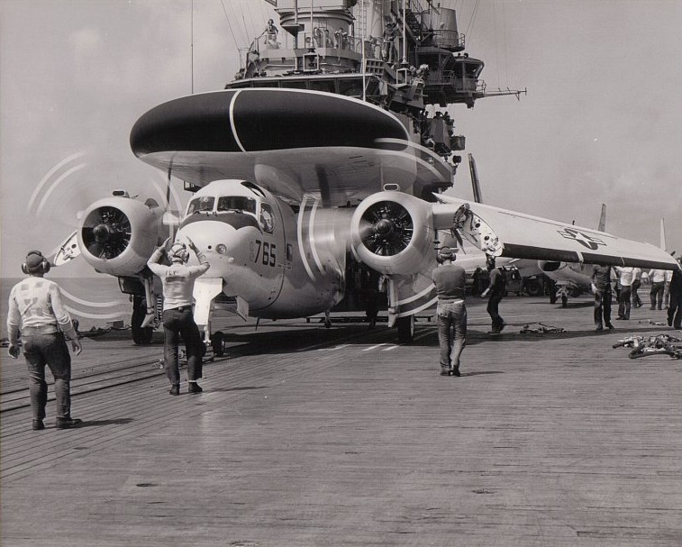 A U.S. Navy Grumman WF-2 Tracer of Carrier Airborne Early Warning Squadron 11 (VAW-11) Det.L "Early Eleven" unfolding its wings prior to launching from the aircraft carrier USS Hancock (CVA-19) on 23 August 1962. VAW-11 Det.L was assigned to Carrier Air Group 21 (CVG-21) aboard the Hancock for a deployment to the Western Pacific from 2 February to 7 October 1962. A month later the WF-2 was redesignated E-1B.